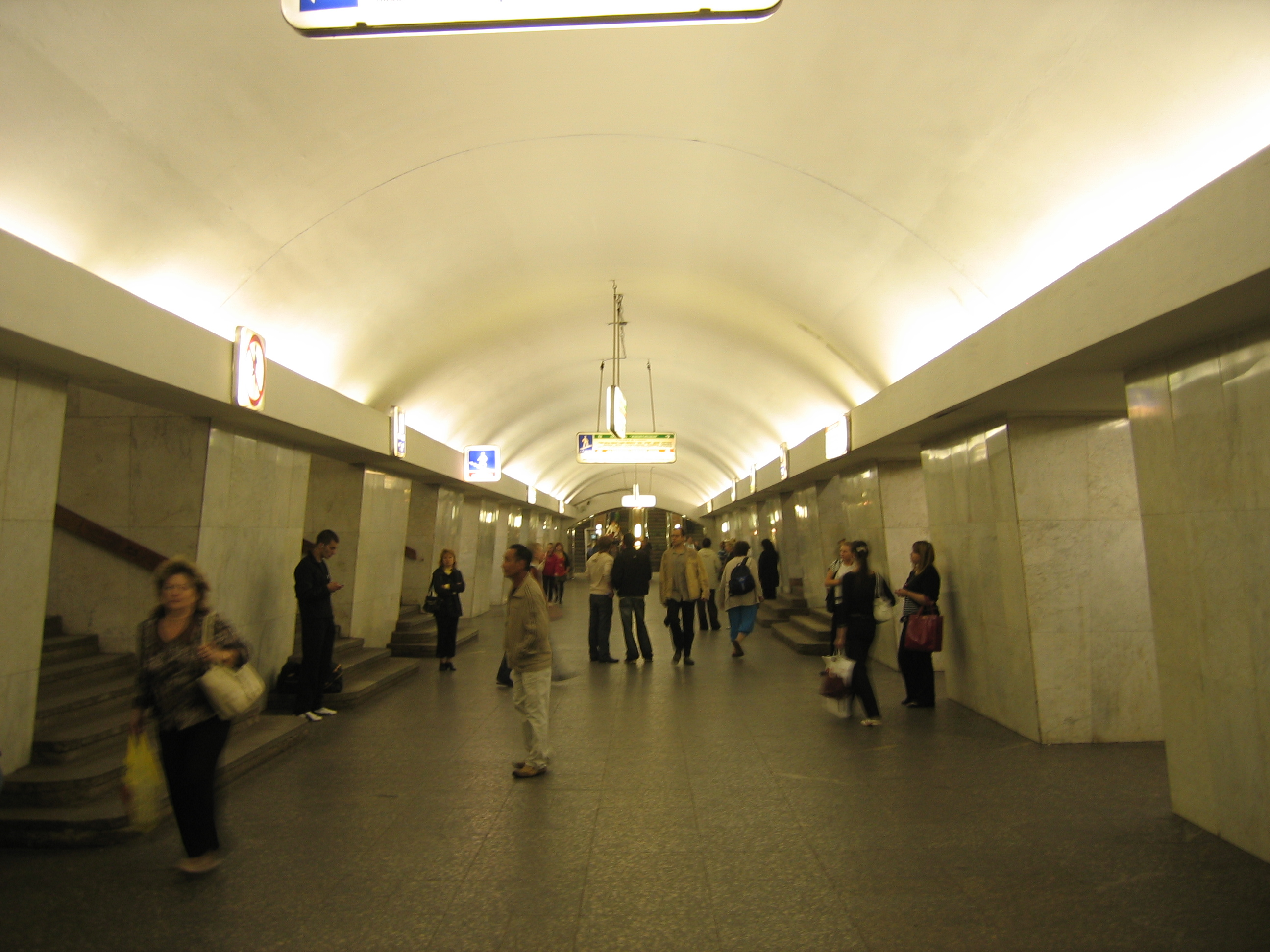 Station Tretyakovskaya of Moscow Metro